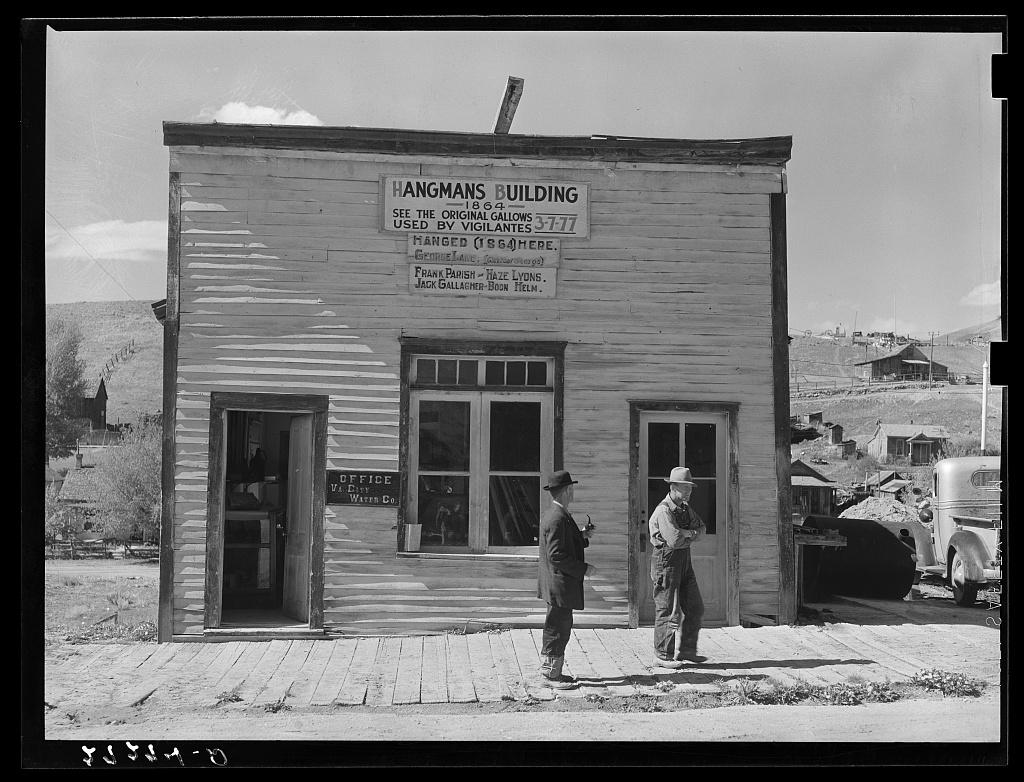 The Hangmans building. Virginia City, Montana, originally named because the Vigilantes hung five outlaws from the rafters during construction. United States. Office of War Information. Overseas Picture Division. Washington Division; 1944. Digital ID: (intermediary roll film) fsa 8b17715 Reproduction Number: LC-USF34-027274-D (b&w film neg.)